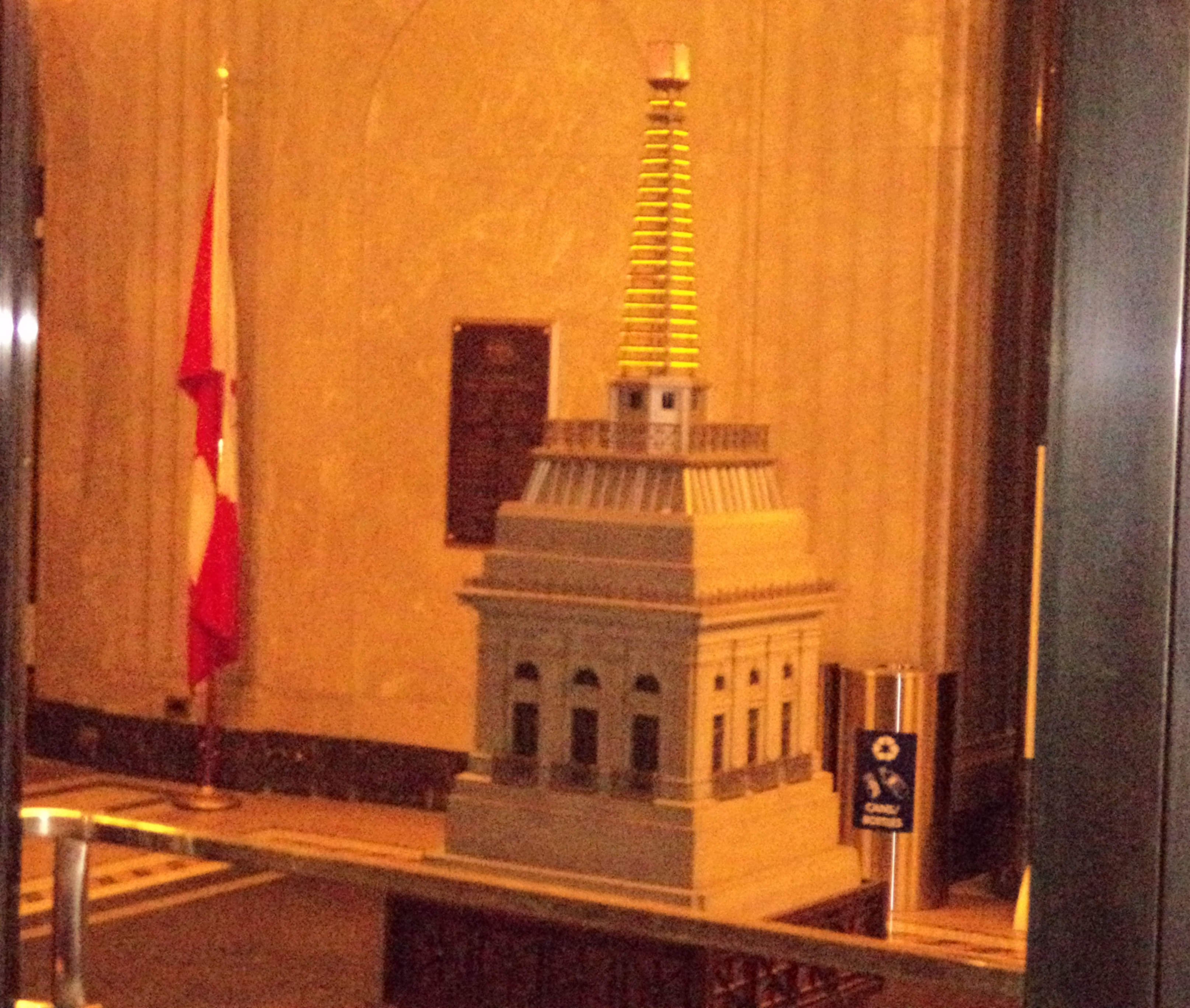 Model of the lighted tower on top of the Canada Life building that shows the weather. Taken from the sidewalk outside the building, security wouldn't let me take it from inside the building... This model is in the lobby.